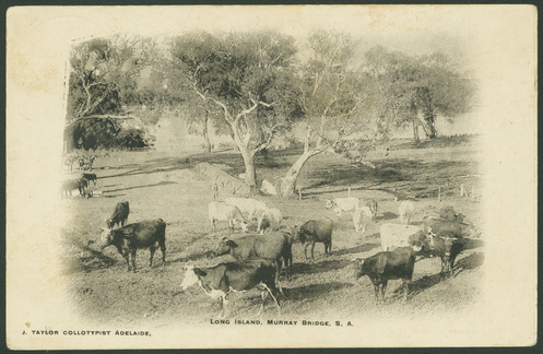 Cattle grazing at Long Island, circa 1900 (State Library of South Australia (B 26826)